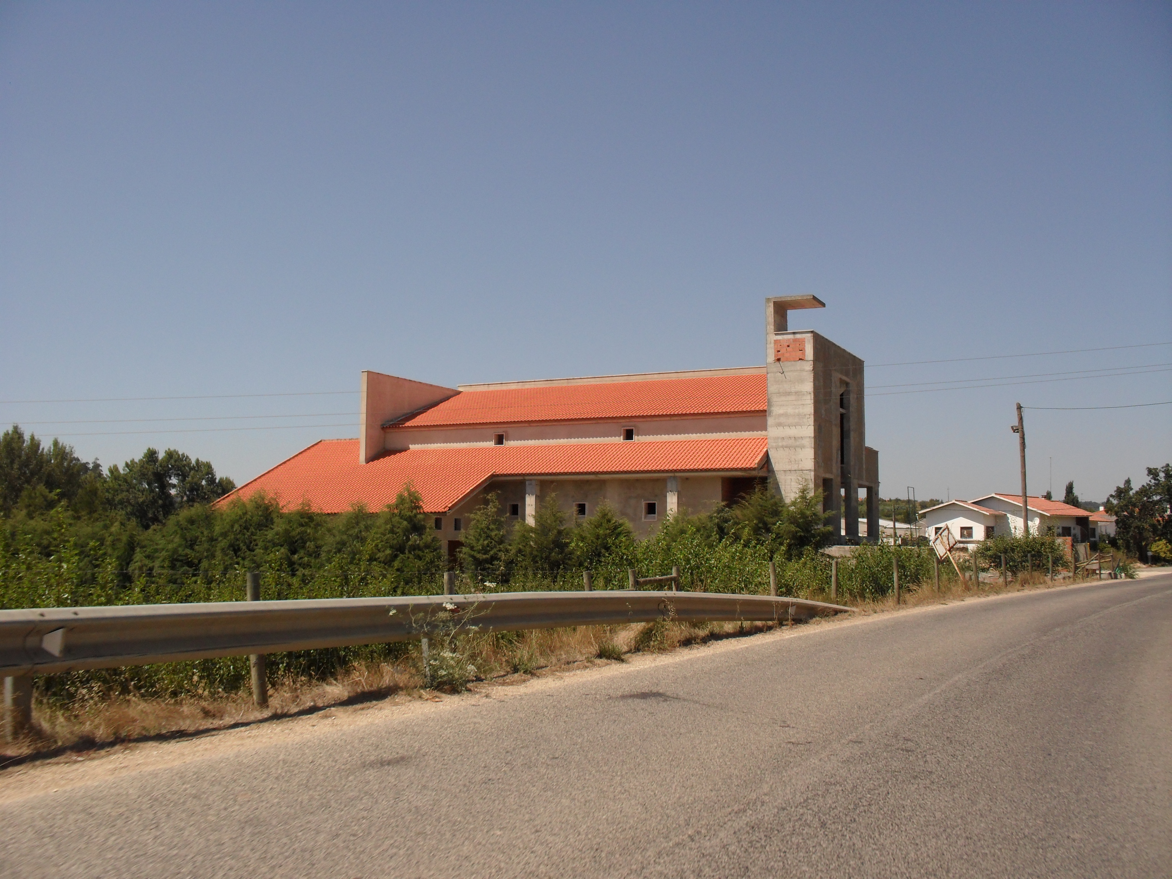 Future Acipreste's Church, still under construction (2011)